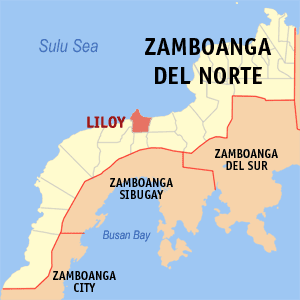 Map of the Zamboanga del Norte showing the location of Liloy